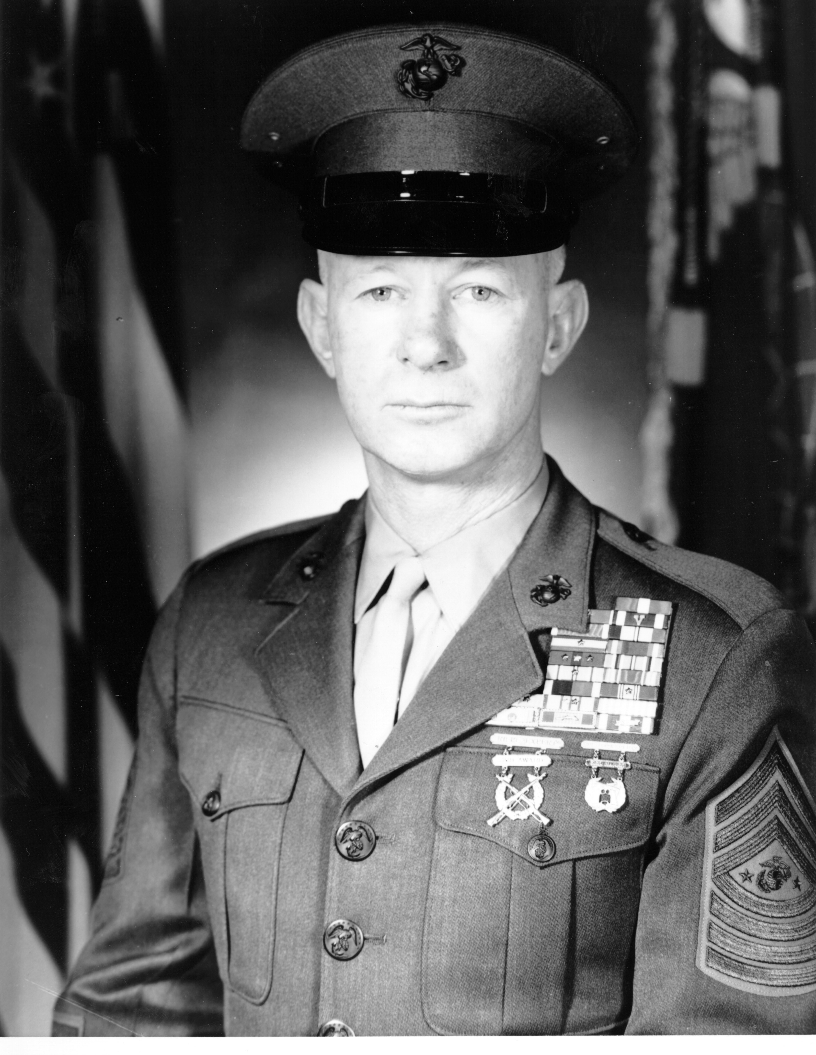 Sergeant Major Clinton A. Puckett, USMC, the 6th Sergeant Major of the Marine Corps. Photograph by U.S. MARINE CORPS